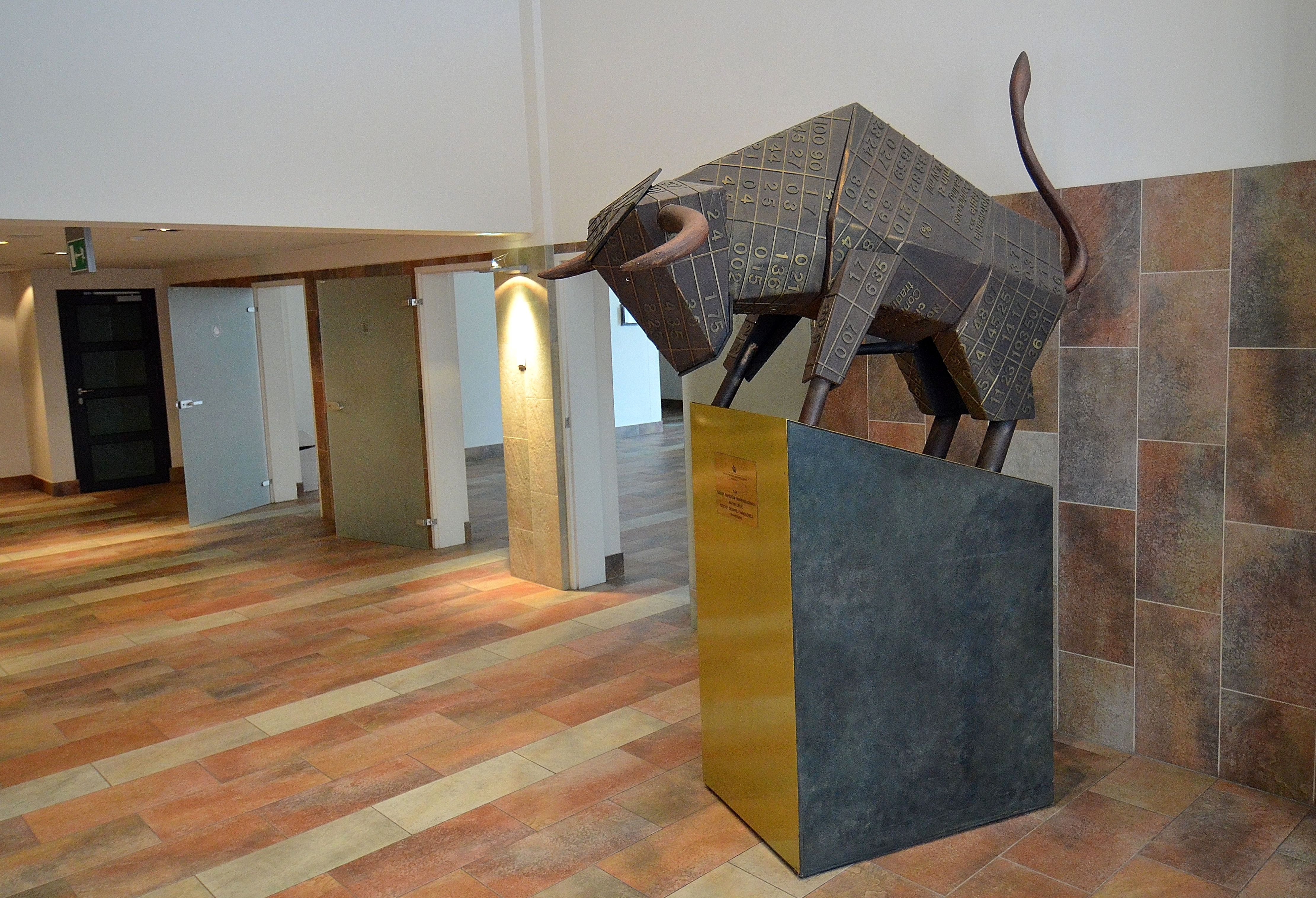 A bull in the building "C" of the Warsaw School of Economics in Warsaw donated by the Warsaw Stock Exchange on the 100th anniversary of the WSE